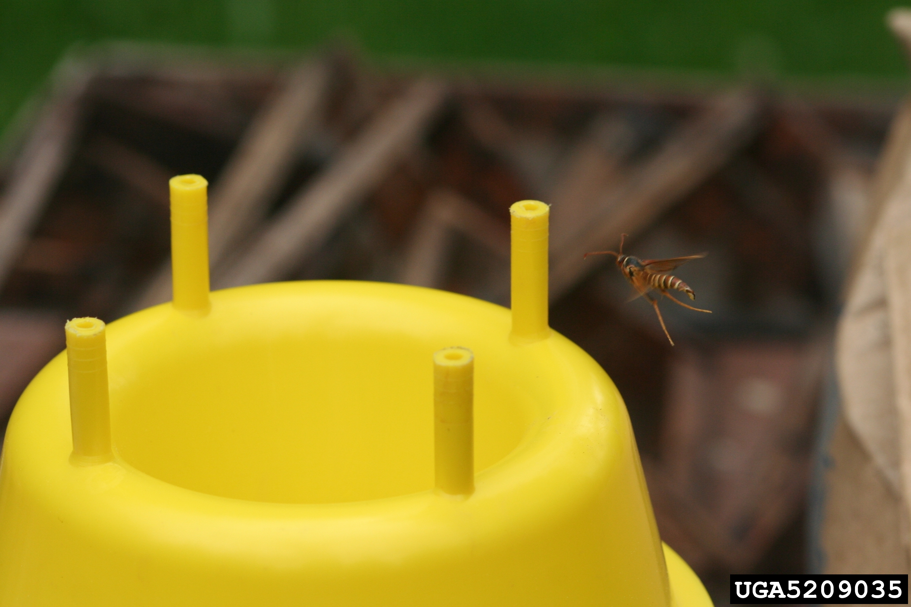 Podosesia syringae